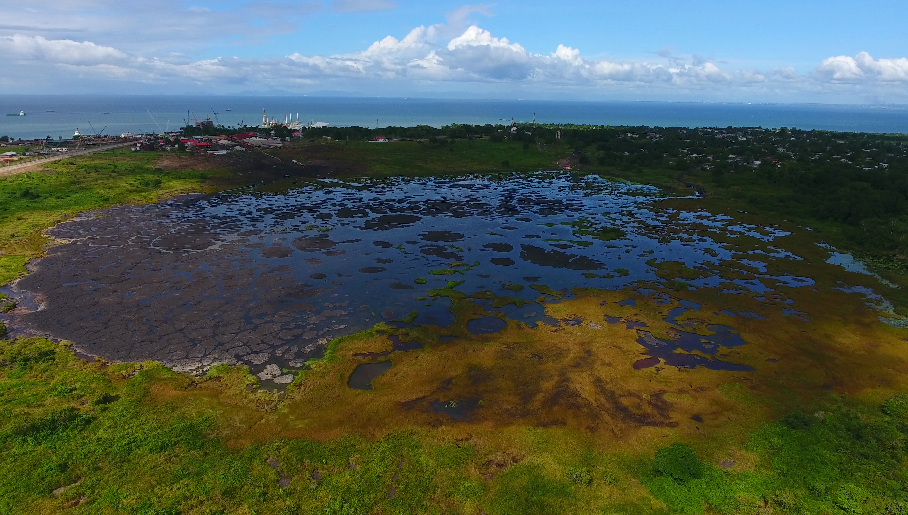 La Brea Pitch Lake, La Brea, Siparia, Trinidad and Tobago. Photo taken as part of the Southern Trinidad Aerial Photo Project, a small project sponsored by WMDE. Drone used: DJI Phantom 4. Snapshot taken from video footage via VLC.